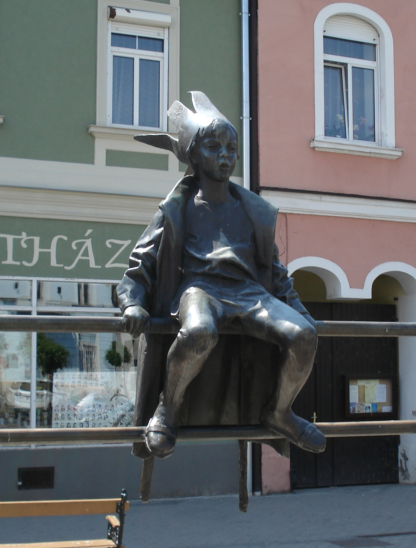 Little Princess, statue of László Marton (1990), Tapolca, Hungary